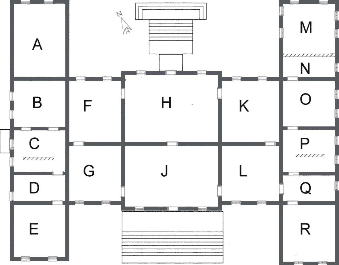 Unscaled rough sketch plan of Belton House, England. For illustrative use only. Drawn by uploader to simplify explanation of room layout and general design of Belton House in Wikipedia article Belton House. This plan would be unsuitable for use elsewhere. Accuracy is not guaranteed.